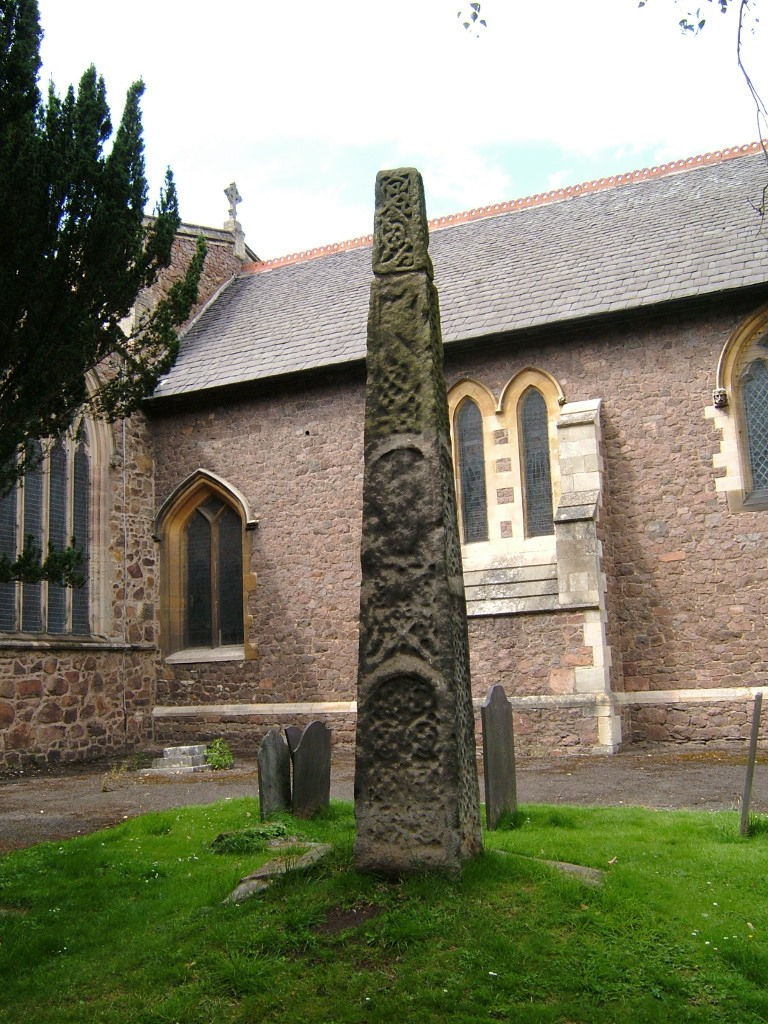 Mercian cross in SS Mary and John parish churchyard, Rothley, Leicestershire